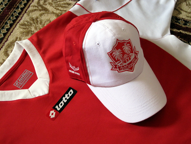 Picture of a Lotto-made Dhofar shirt (2005/2006), and a Grand Sport-made cap (2008/2009). Ittihadawi